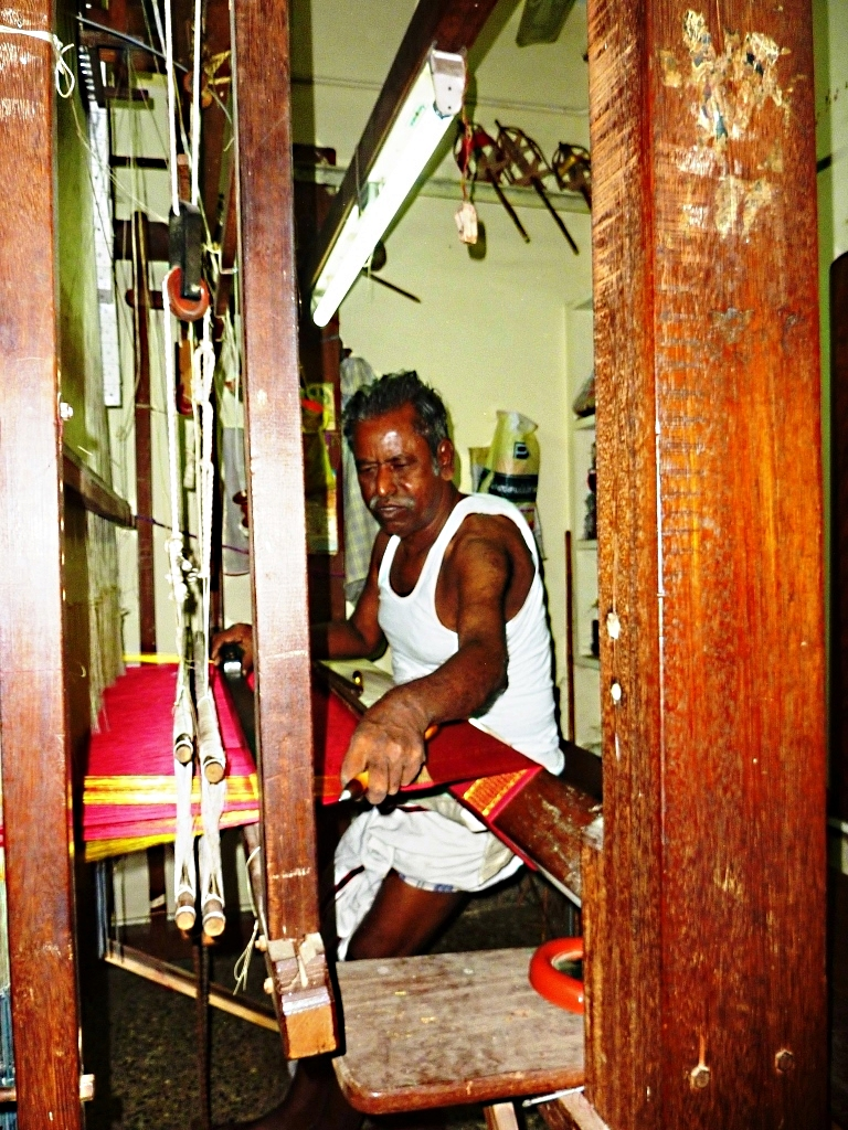 I took this photo on a visit to Tamil Nadu in 2010.